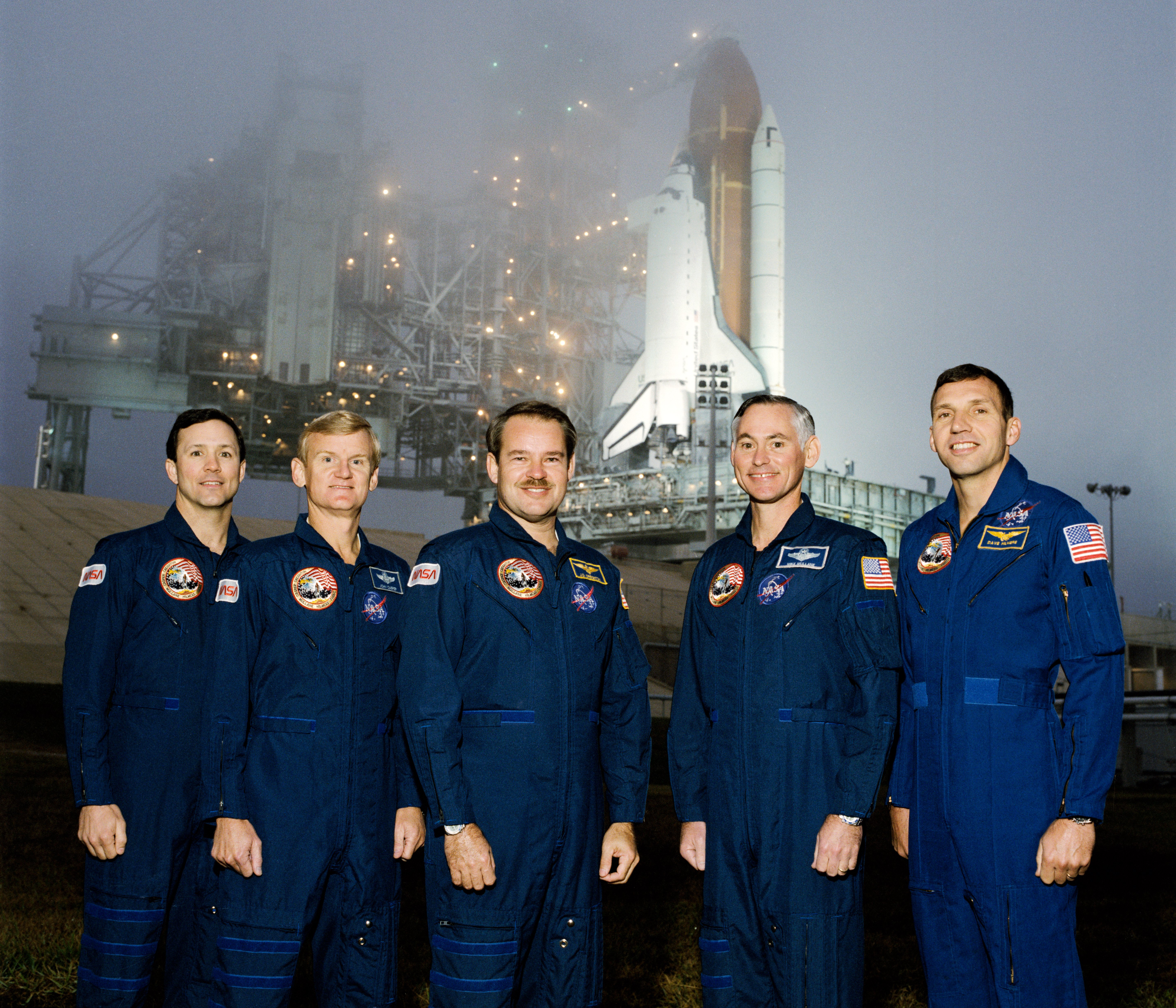 The STS-36 crew portrait features 5 astronauts who served in the 6th Department of Defense (DOD) mission. Posed near the Space Shuttle Orbiter Discovery are (left to right) Pierre J. Thuot, mission specialist 3; John H. Caster, pilot; John H. Creighton, commander; Richard M. (Mike) Mullane, mission specialist 1; and David. C. Hilmers, mission specialist 2. The crew launched aboard Atlantis on February 28, 1990 at 2:50:22am (EST).